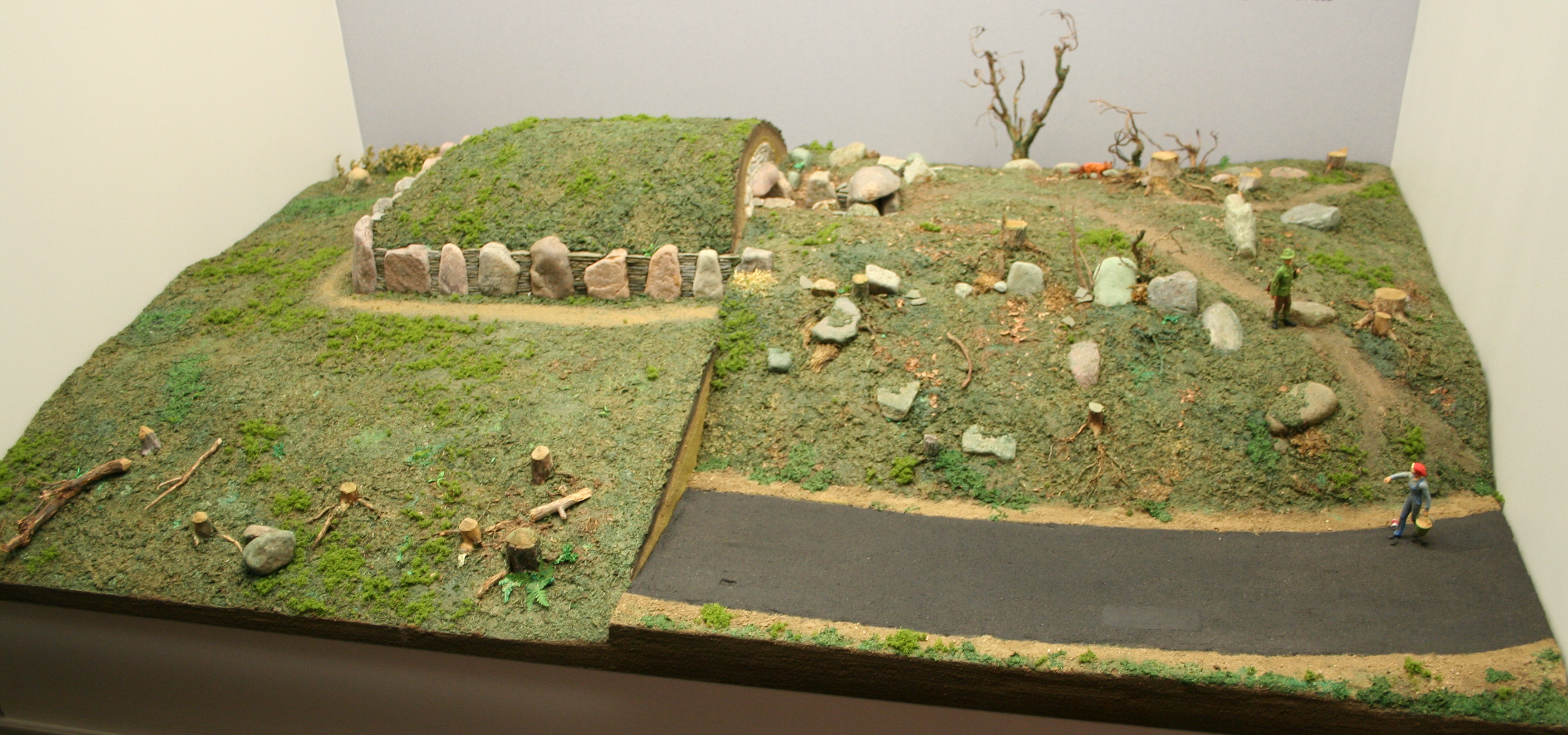 Archaeological state museum Schleswig-Holstein, Gottorf Castle